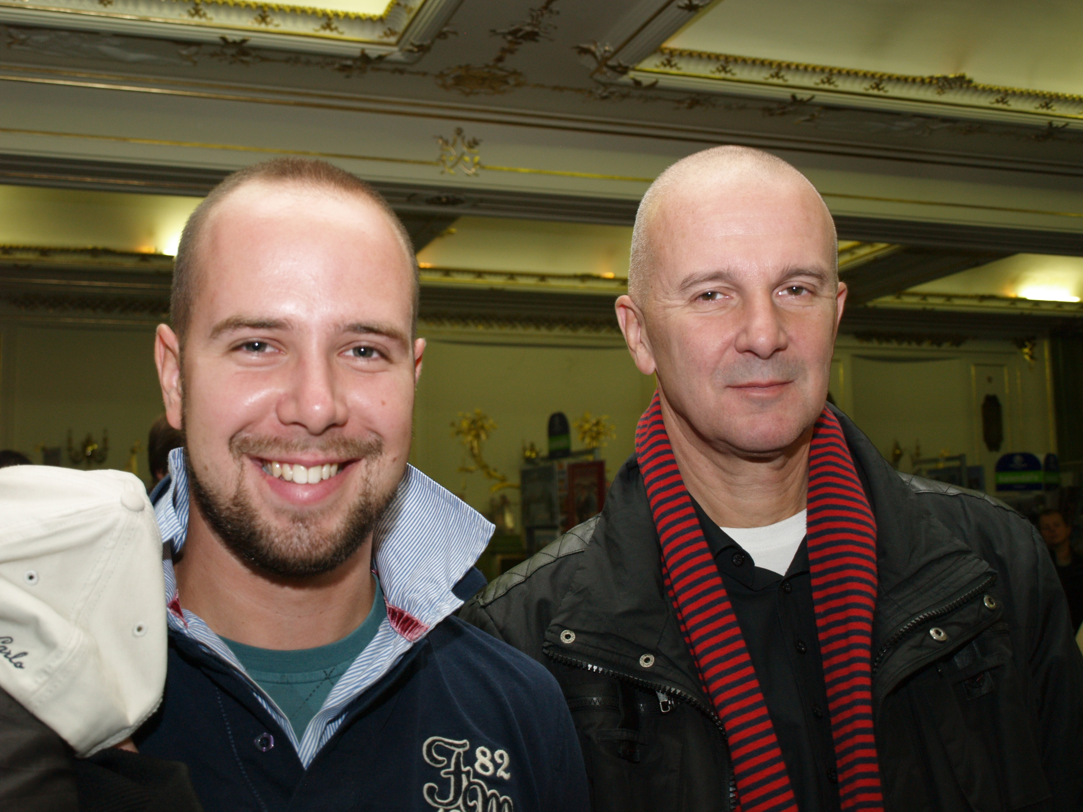 Czech music composer Ondřej Soukup (right) with his son František Soukup, Czech singer and composer